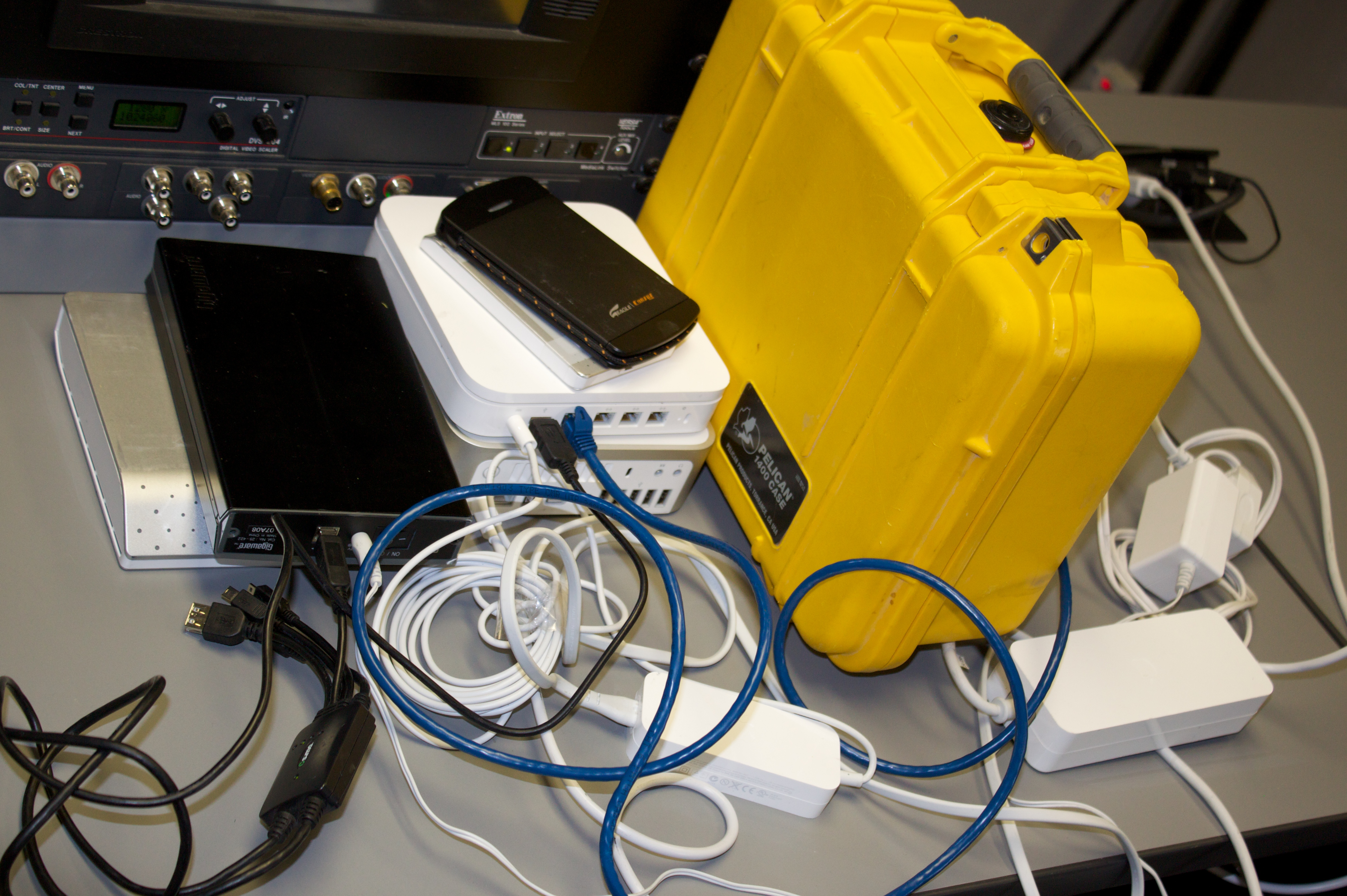 The following is the author's description of the photograph quoted directly from the photograph's Flickr page."My 'internet in a box'. The Mac Mini have VM Ware on it, and I've got a library of web tools on the hard drives. There's a router sitting on top of the Mini, and the services are available to the people using my network even if we don't have a solid internet connection. My favourite service to run is DimDim, which does web based video conferencing and chat.I'm using JumpBox systems, and having a great time with them. whole system fits inside the yellow Pelican Case "